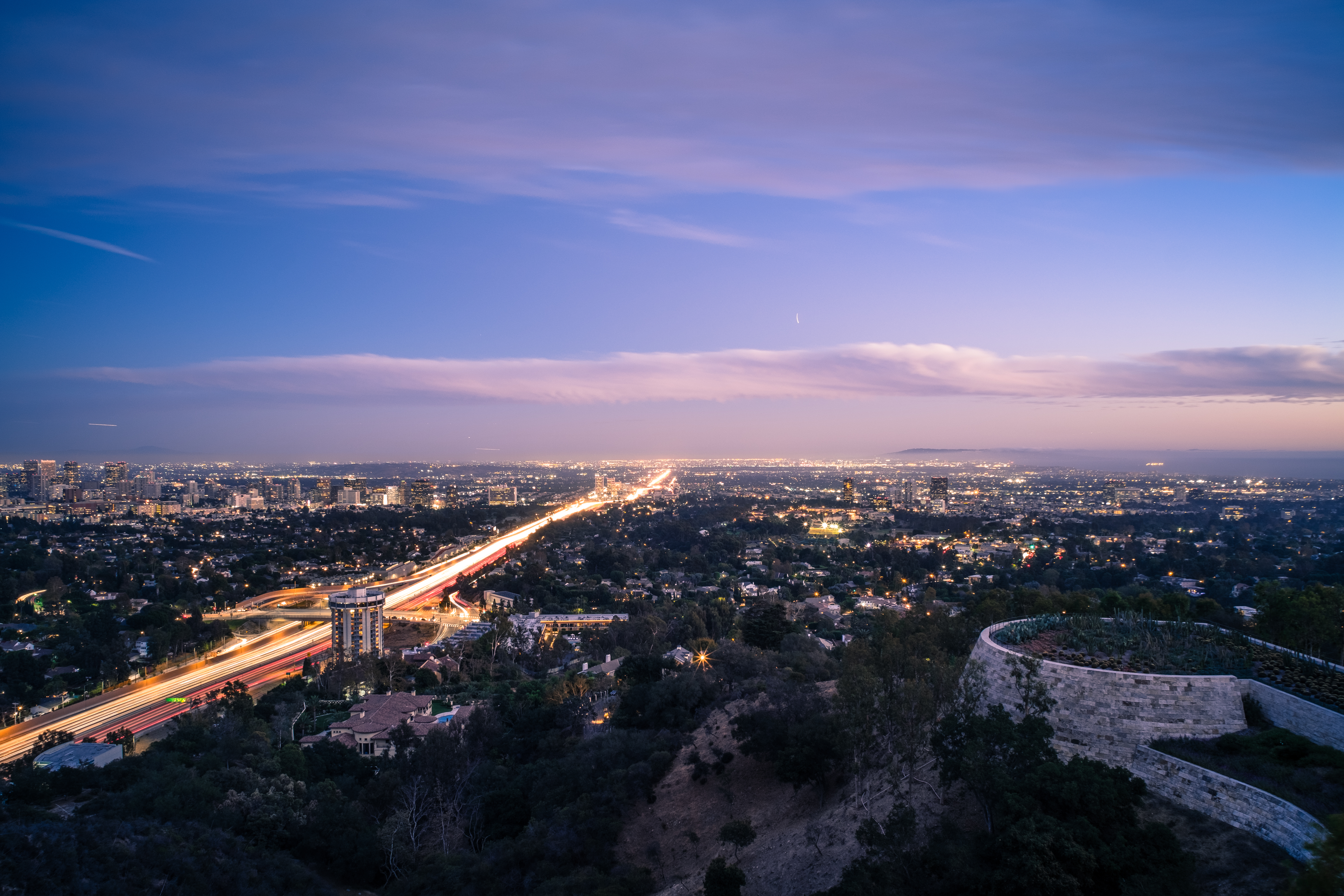 View of West Los Angeles from the Getty Center at twilight